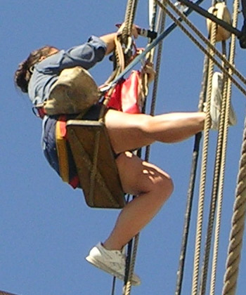 Tarring of lines aloft on sailing ship. Detail from high-resolution version of "Image:Bosun's chair.jpg" on Wikipedia